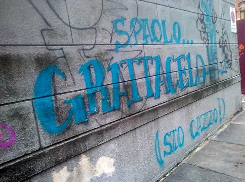 Intesa San Paolo skyscraper, protest graffiti in Turin